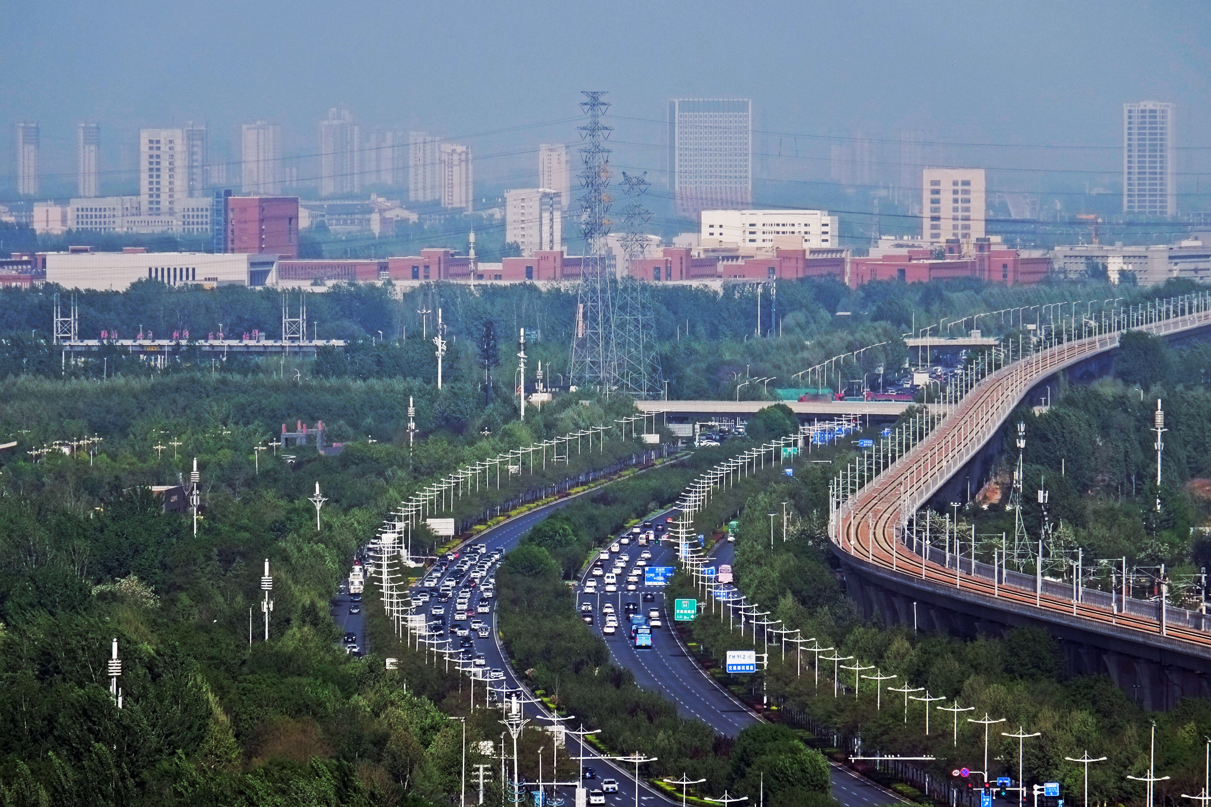 Jinshui East Road and Zhengzhou-Kaifeng ICR